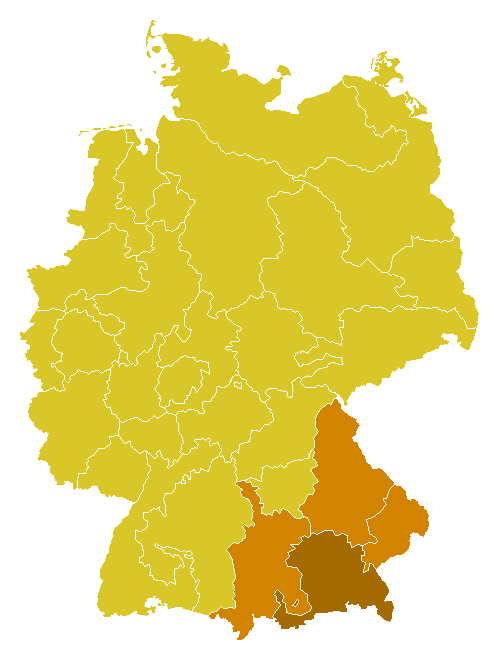 church province of München (Munich), Germany